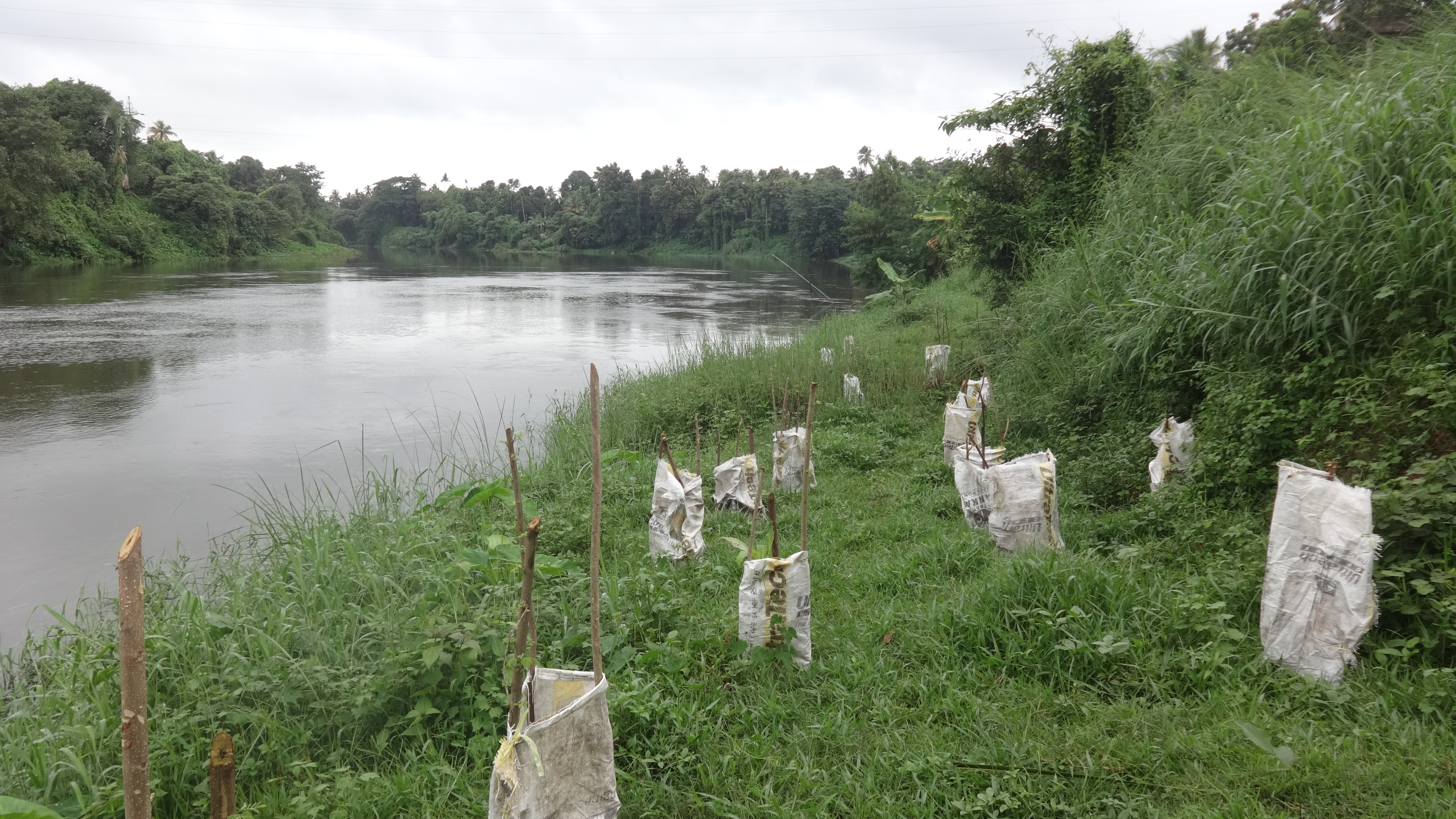 Tree guards made from sacs and twigs